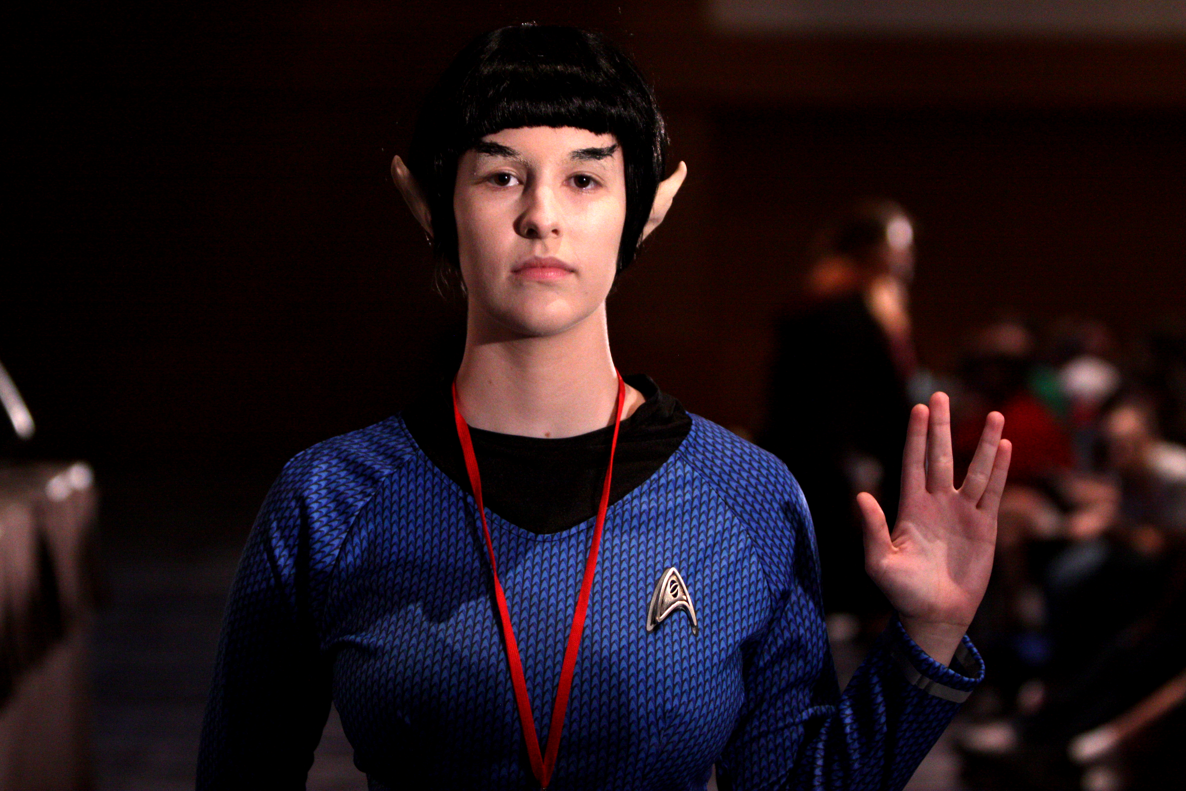 Vulcan cosplayer at the Phoenix Comicon in Phoenix, Arizona. Credits: Gage Skidmore